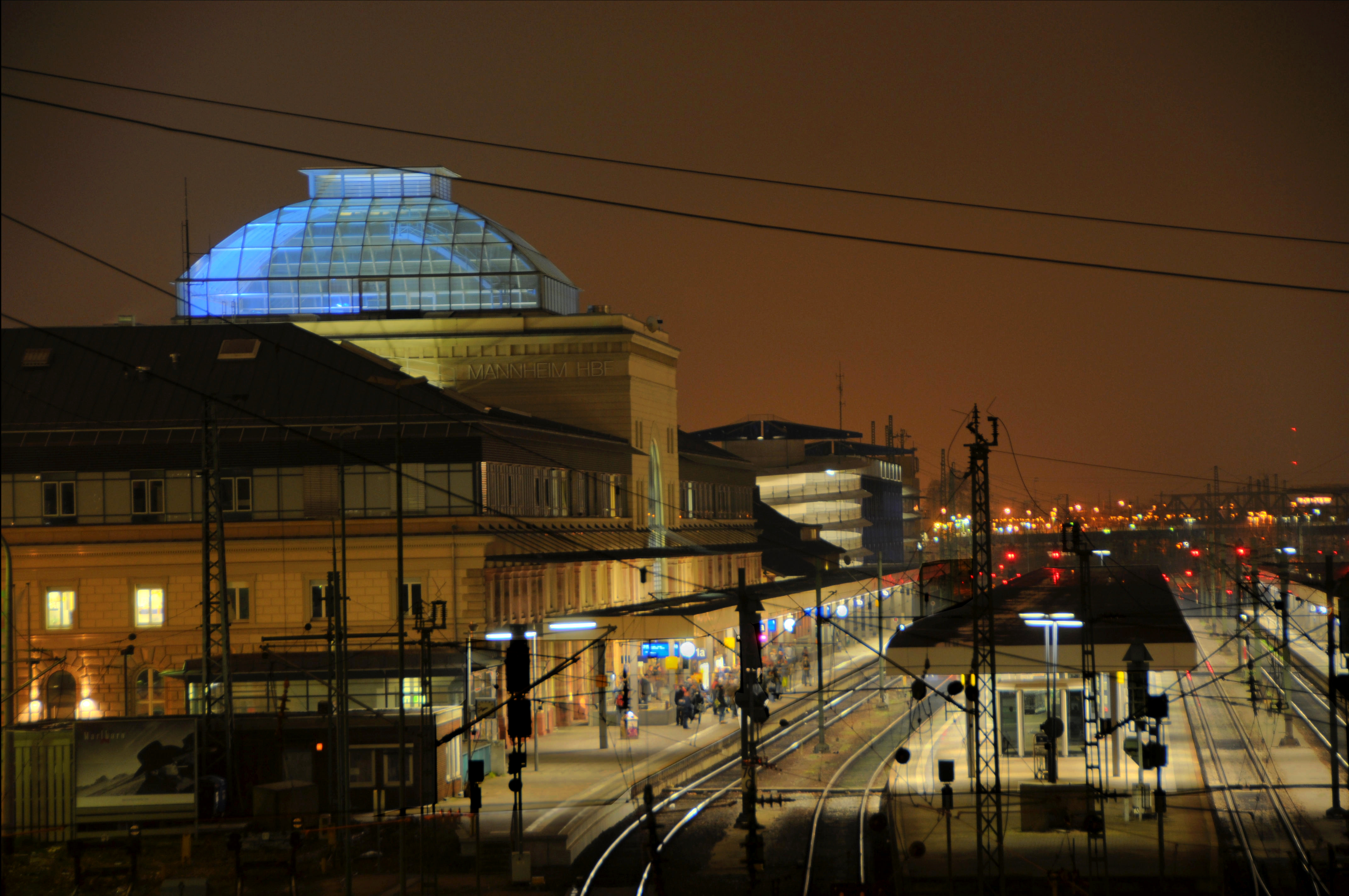 Main station, Mannheim, HDR night picture